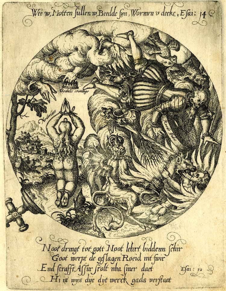 Emblematic print: downfall of the oppressors of the Netherlands. Hand of God appearing from cloud with 'crown of patience' for the Netherlands, represented by kneeling female figure, bound hands raised in prayer; on her right, the oppressor ejected from heaven towards fiery serpents; image contained within circle (a mirror/a globe?) with handle, lower left. Etching Inscription Language: Inscription Content: Lettered with biblical quotation (Isaiah,14:9 above image and 4-line verse (paraphrase of Isaiah, 10:12) below, and annotated '168' top right Height: 210 millimetres Width: 158 millimetres